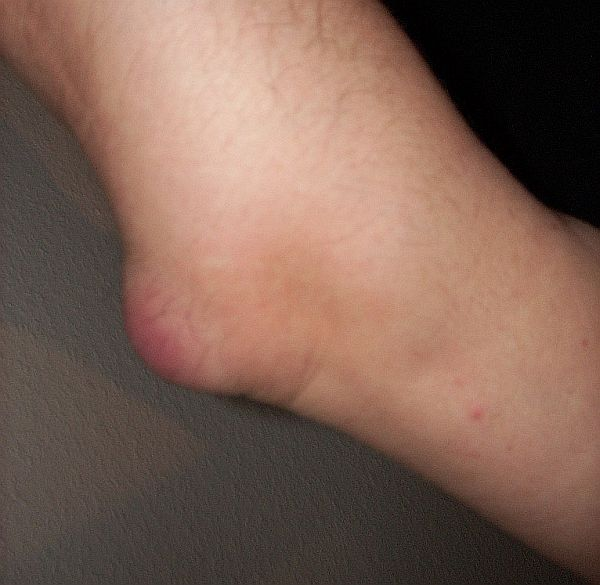 Bursitis olecrani - acute inflammation of the subcutaneous burse of the ellbow (Bursa subcutanea olecrani)